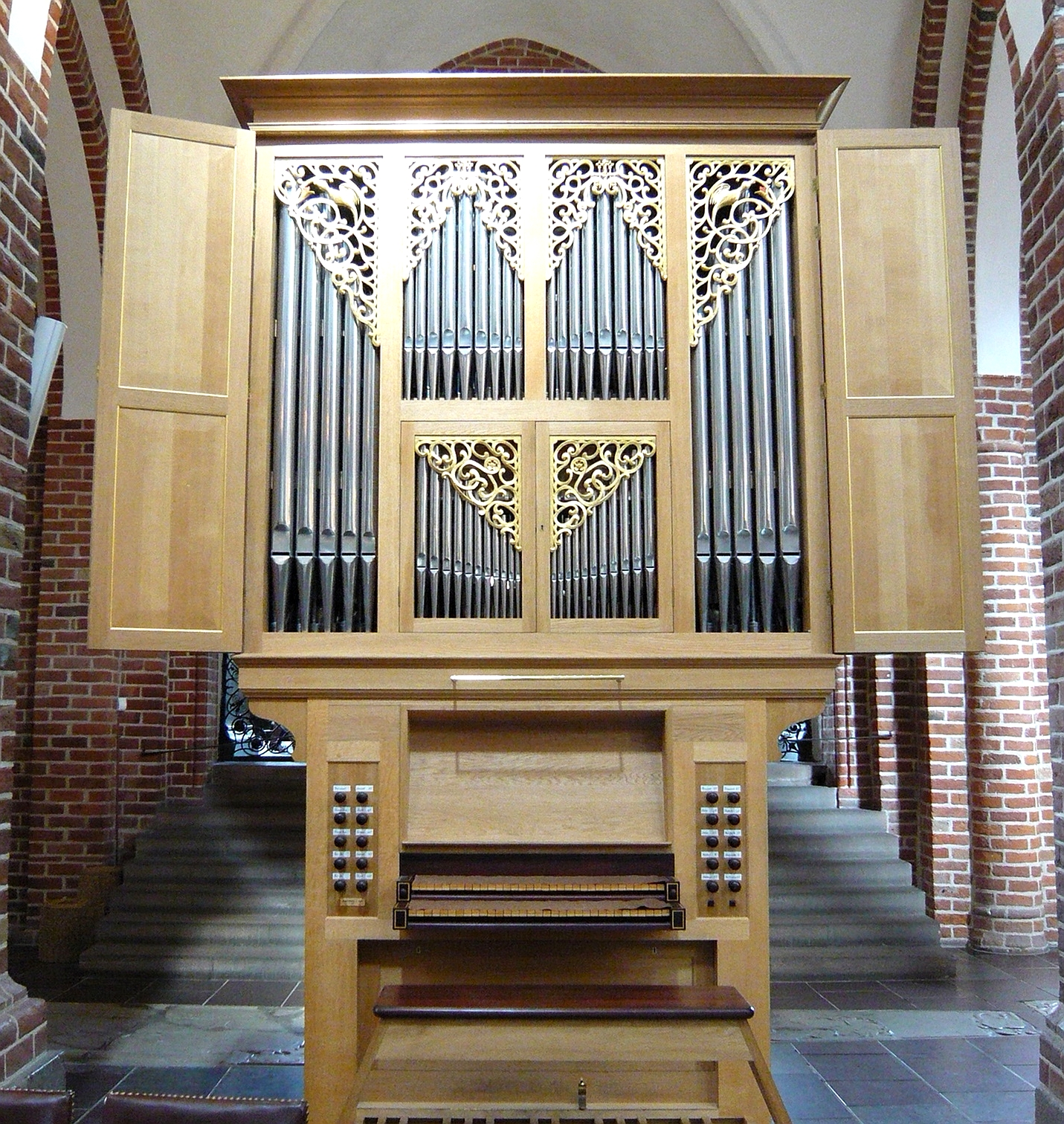 The smaller Cathedral organ.